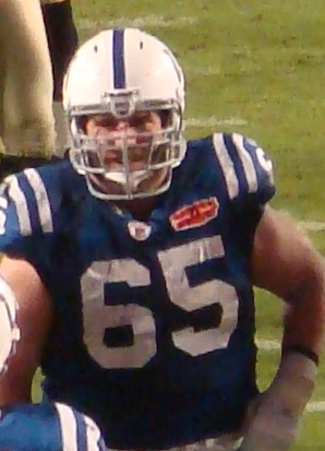 Indianapolis Colts offensive line huddles during Super Bowl XLIV in Miami, Fla.